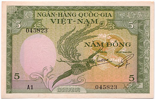 South Vietnam Dongs. Note that South Vietnam ceased to exist in 1976 and was succeeded by Socialist Republic of Vietnam.